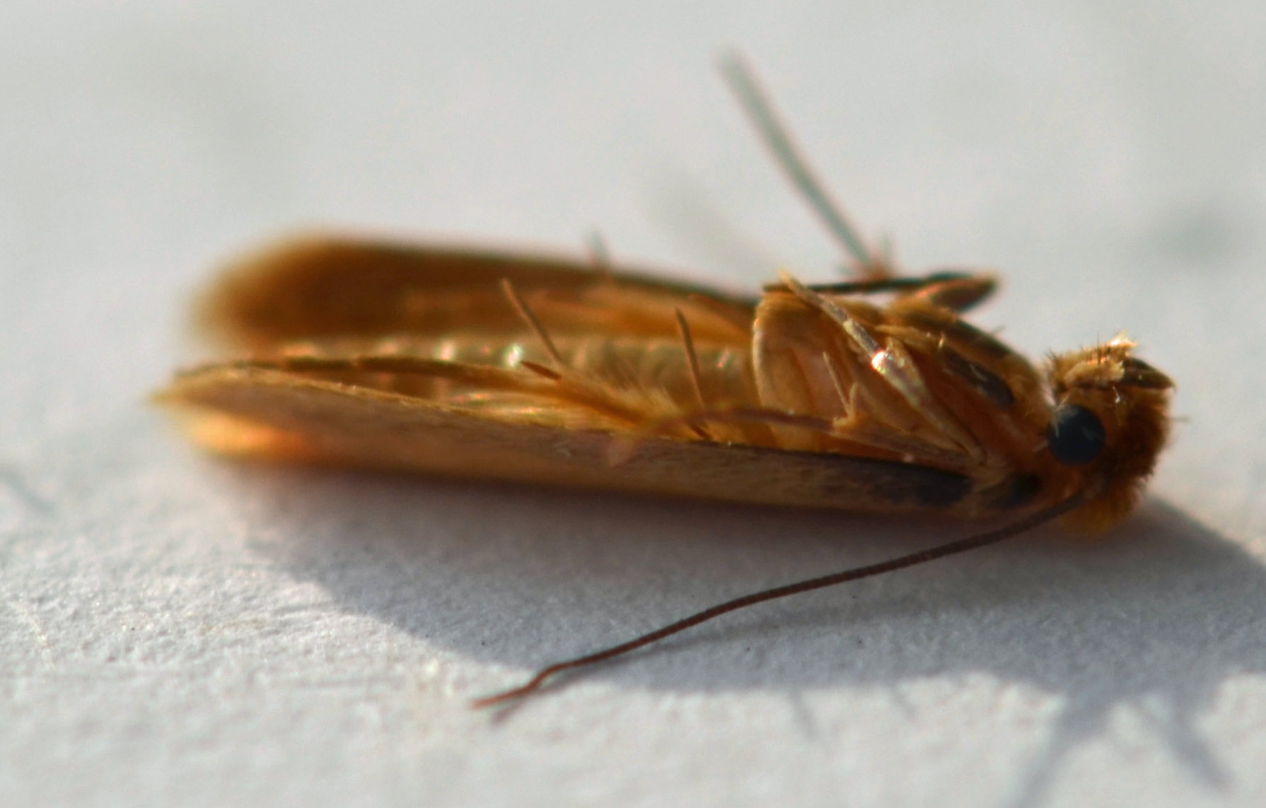 Tineola bisselliella (+/- 7mm) and egg